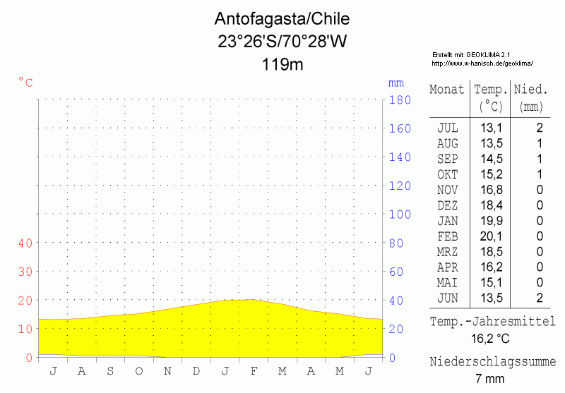 climate chart in the format by Walther and Lieth, metric, °Celsisus and millimeters, made with Geoklima 2.1